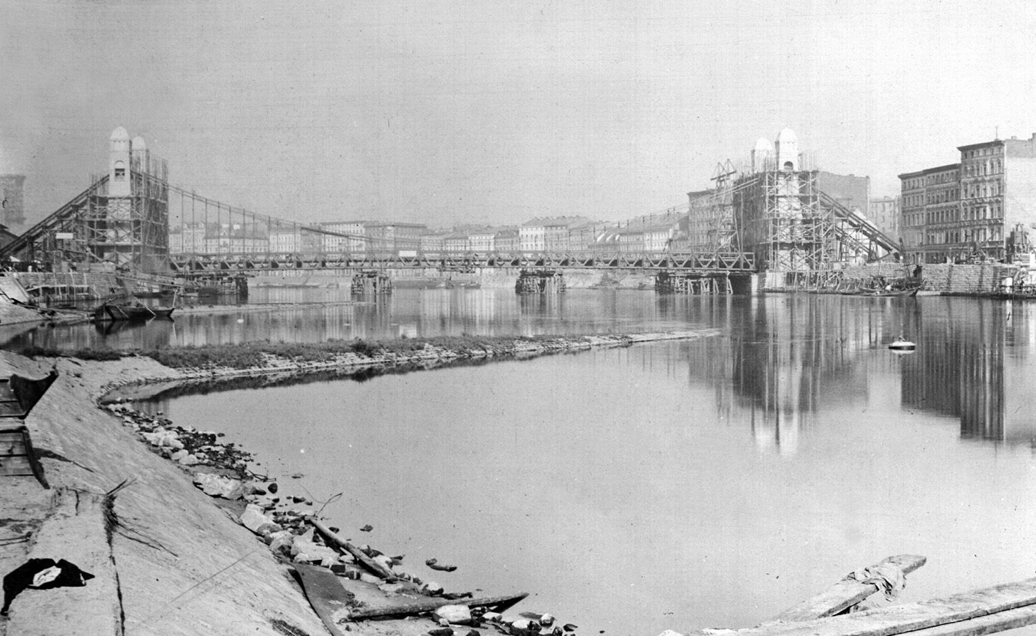 The bridge during the construction 1909